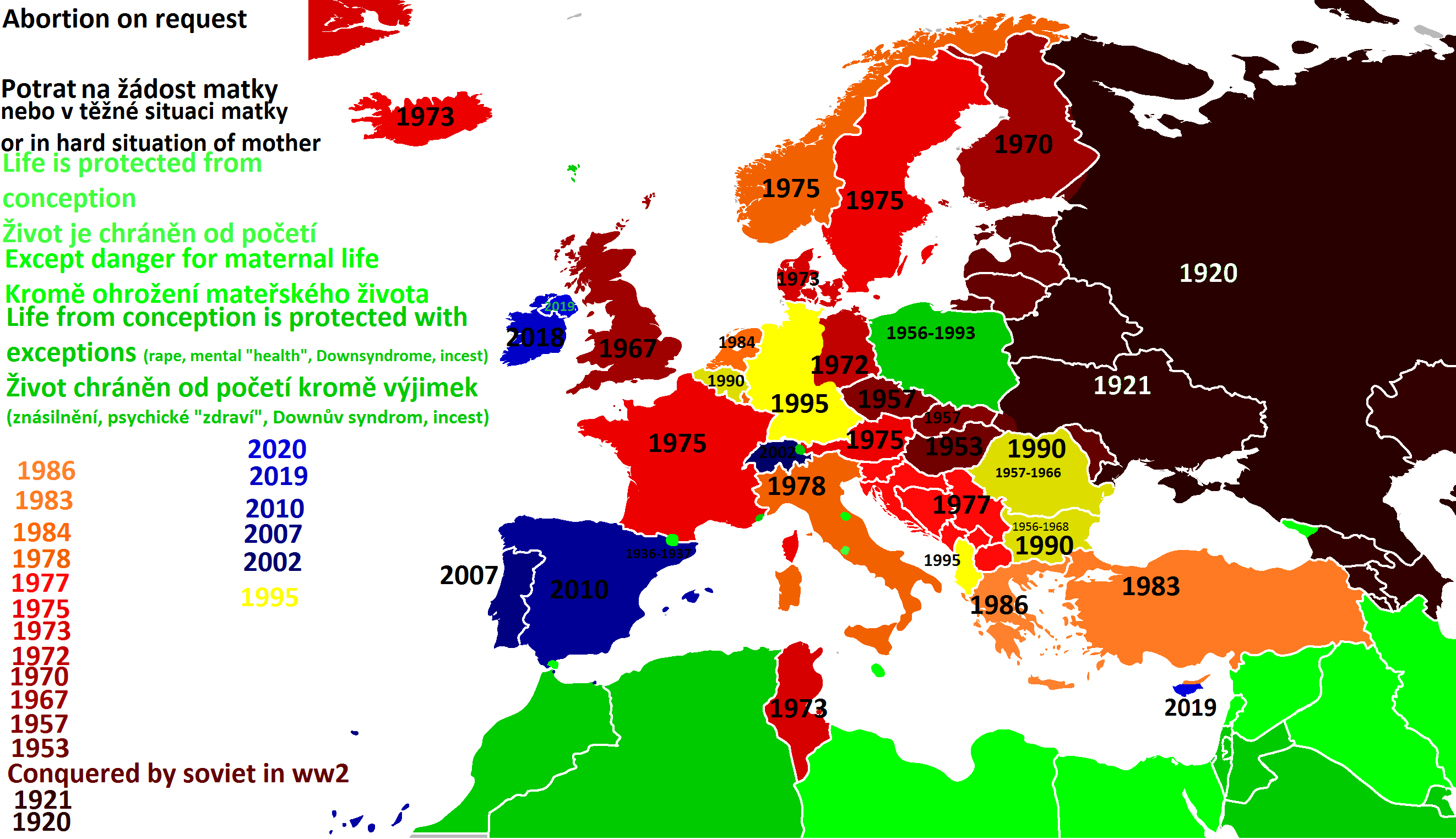 Map of Europe, north Africa and southwest Asie.